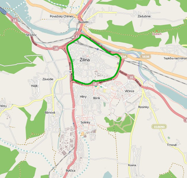 Zilina- Centre map location